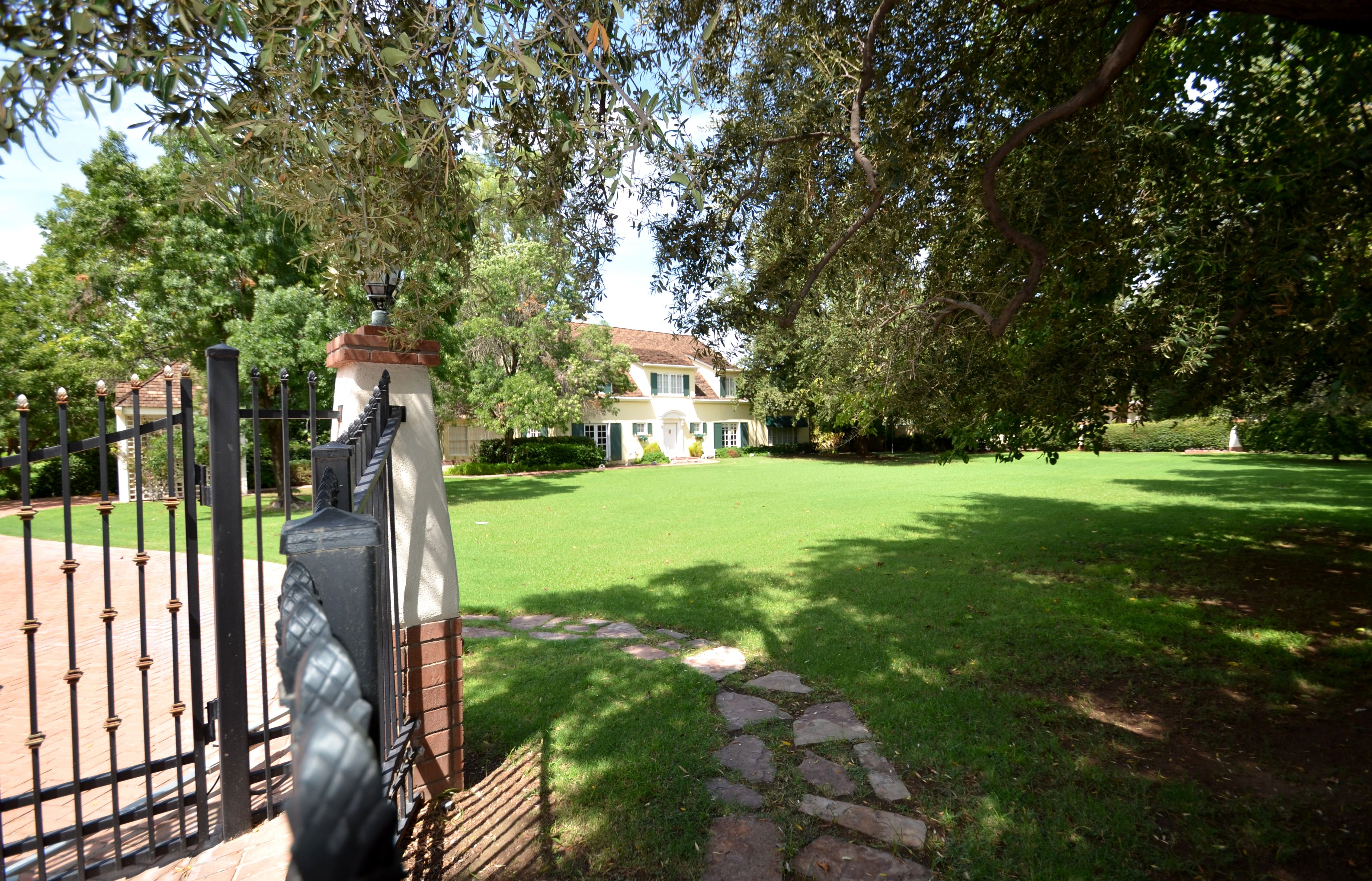 E. Payne Palmer House